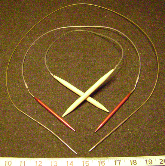 Three different circular knitting needles of different sizes and composition. The inner beige one is short and thick (US size 13) and made of wood, whose roughness prevents stitches from slipping off. The red metal middle one is US size 9, and its tips have been screwed onto the nylon cord. The outer one is US size 5, nickel-plated hollow brass for speed and unusually long, designed for lace and larger sweaters.